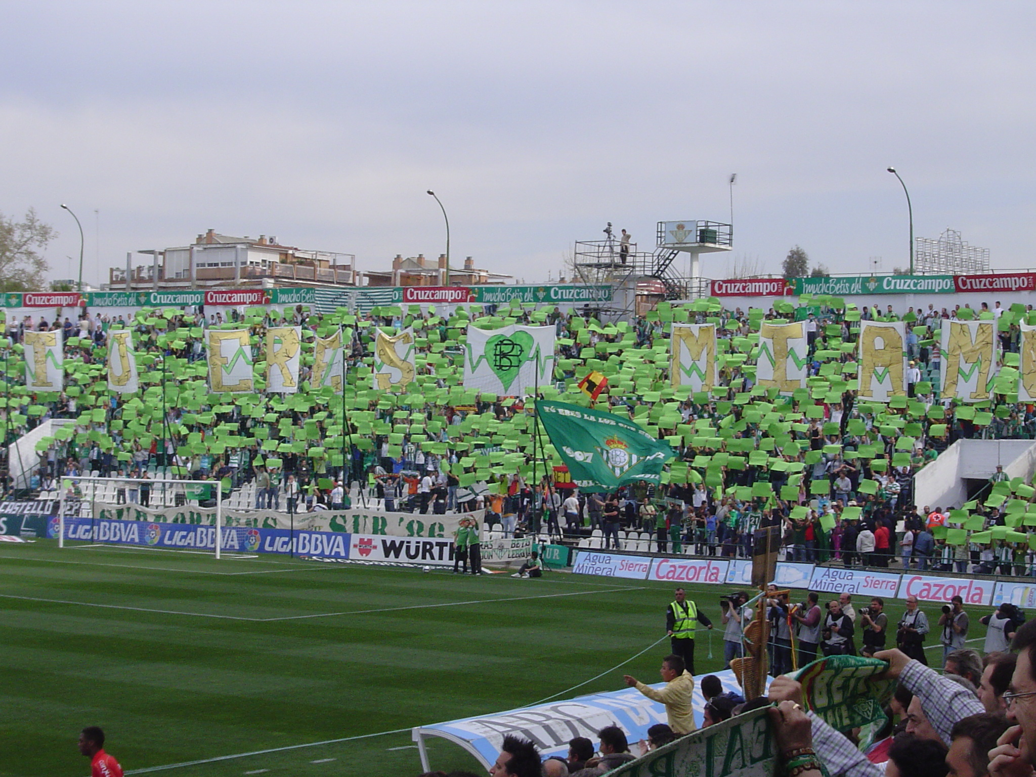 Real Betis Supporters